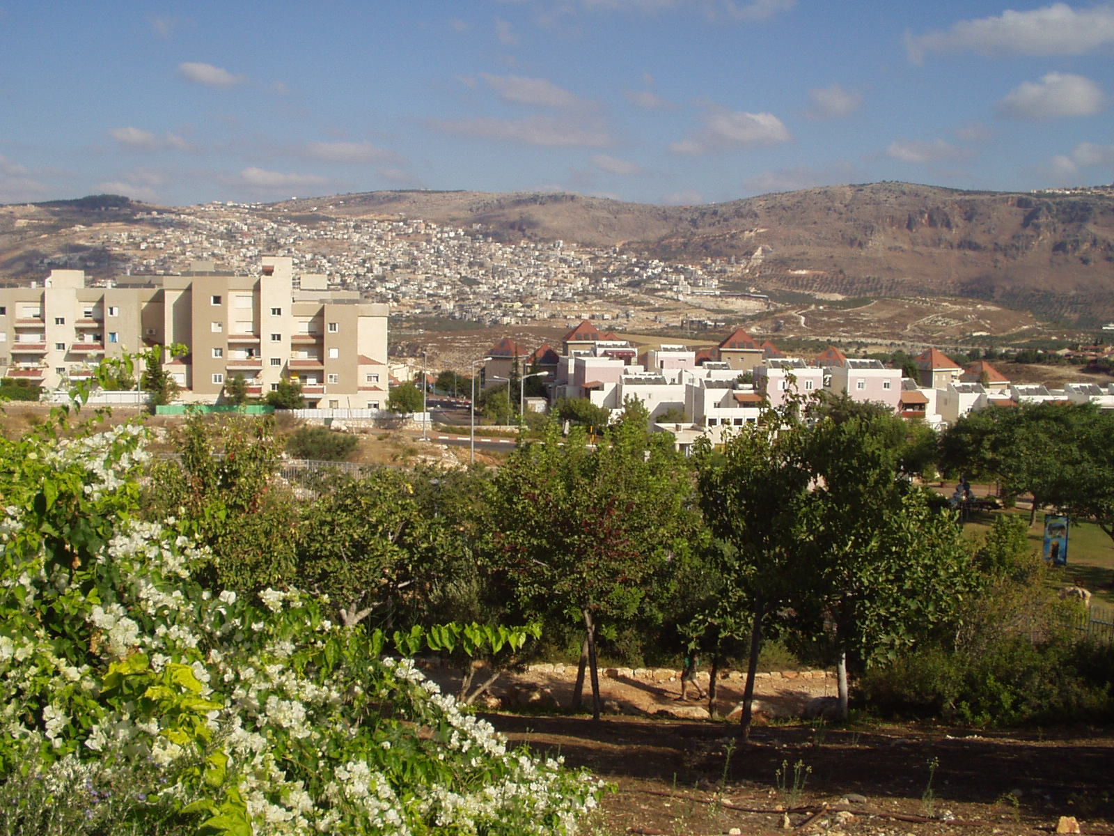 View of Park ha-Galil